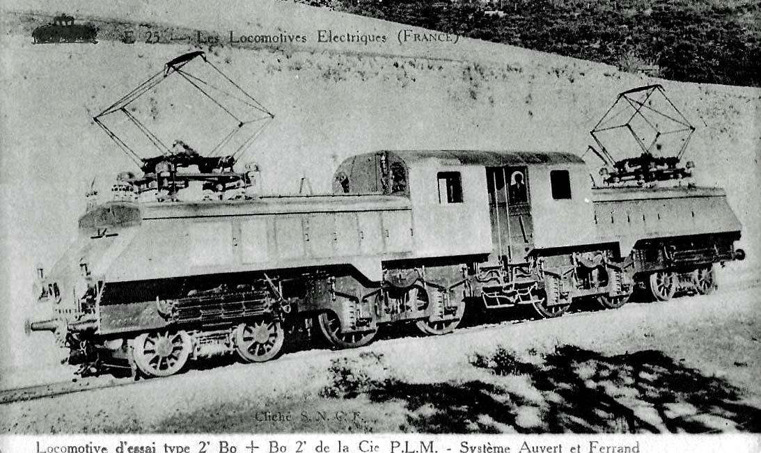 Electric locomotive PLM 2'Bo+Bo2' Auvert & Ferrand, 1910, 12 kV 25 Hz.